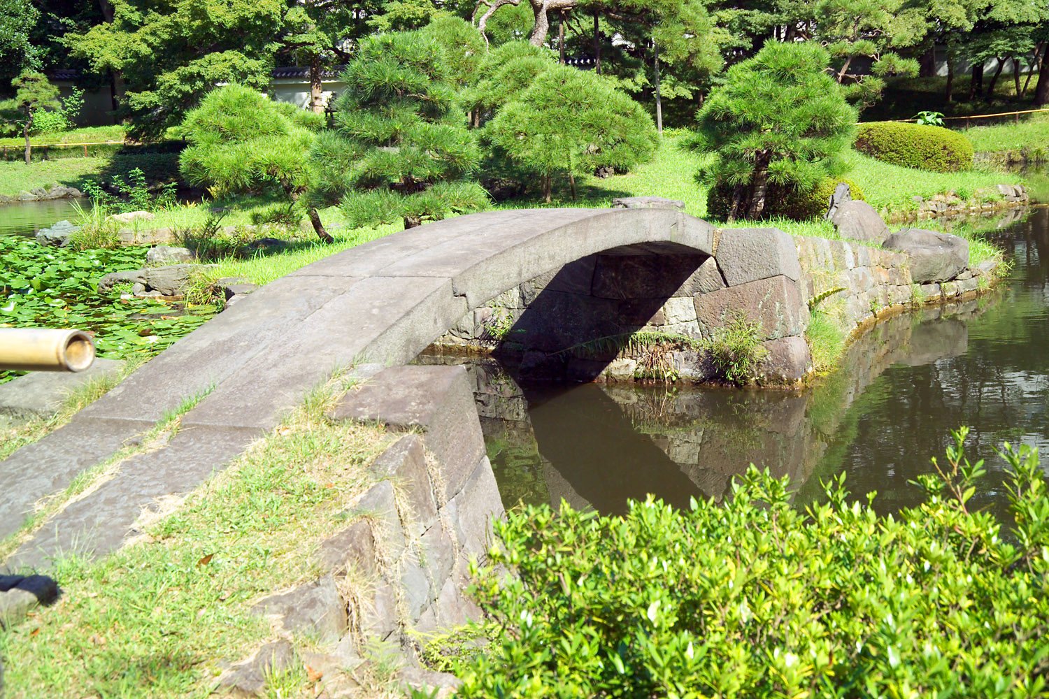 Koishikawa Korakuen is a Japanese garden in Tokyo, Japan. The Mito Tokugawa family established the garden near their residence, close to the castle. Now, Korakuen is an oasis of greenery amid the bustle of downtown Tokyo, adjacent to Tokyo Dome and the Korakuen amusement park. I took this photo and contribute my rights in the file to the public domain; individuals and organizations retain rights to images in it.